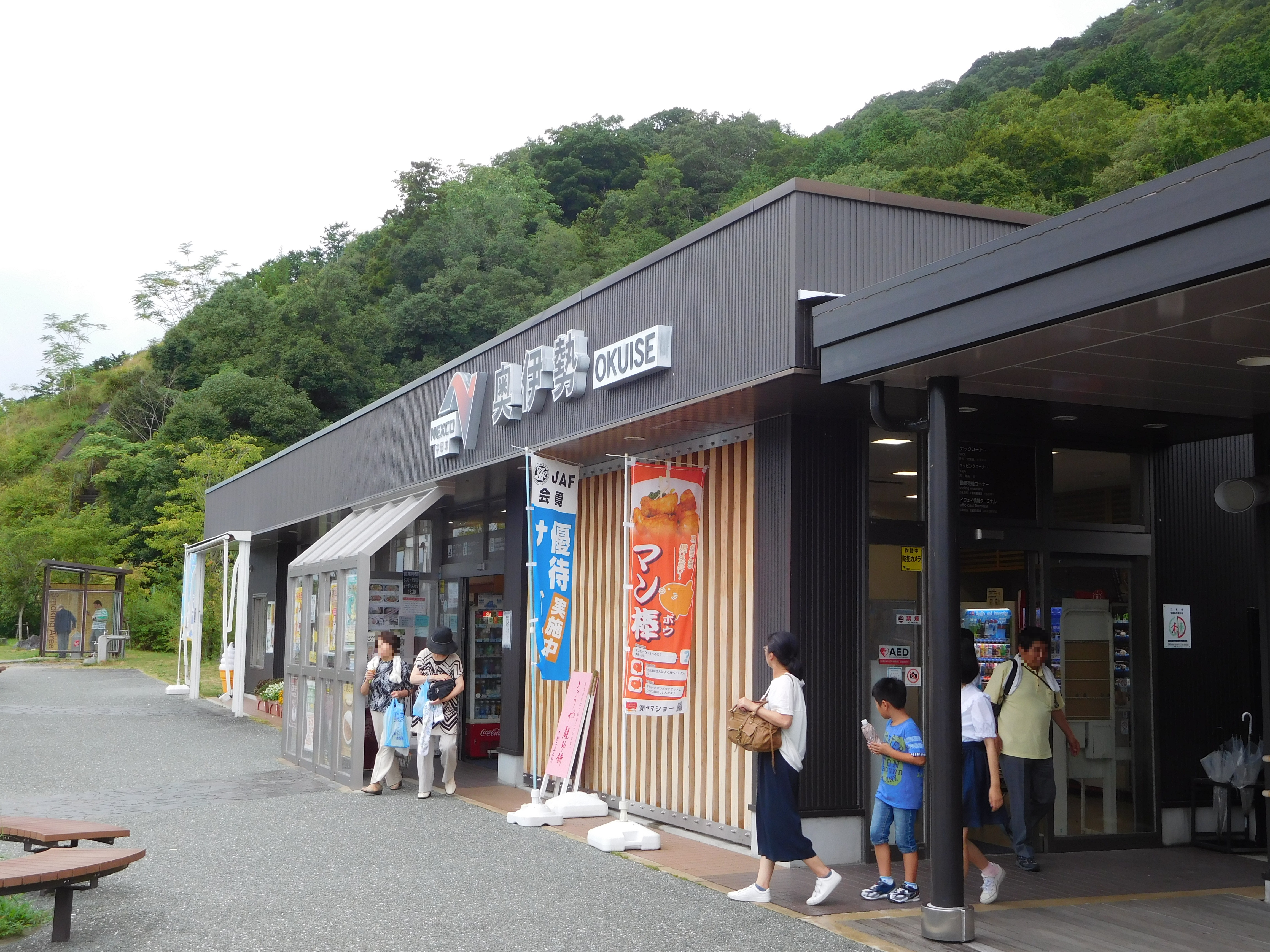 This is the upper side building of Okuise parking area in Odai, Mie, Japan.